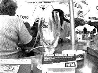 An image created with the very first Connectix QuickCam. Taken in Krakow, 1996, by ProhibitOnions.